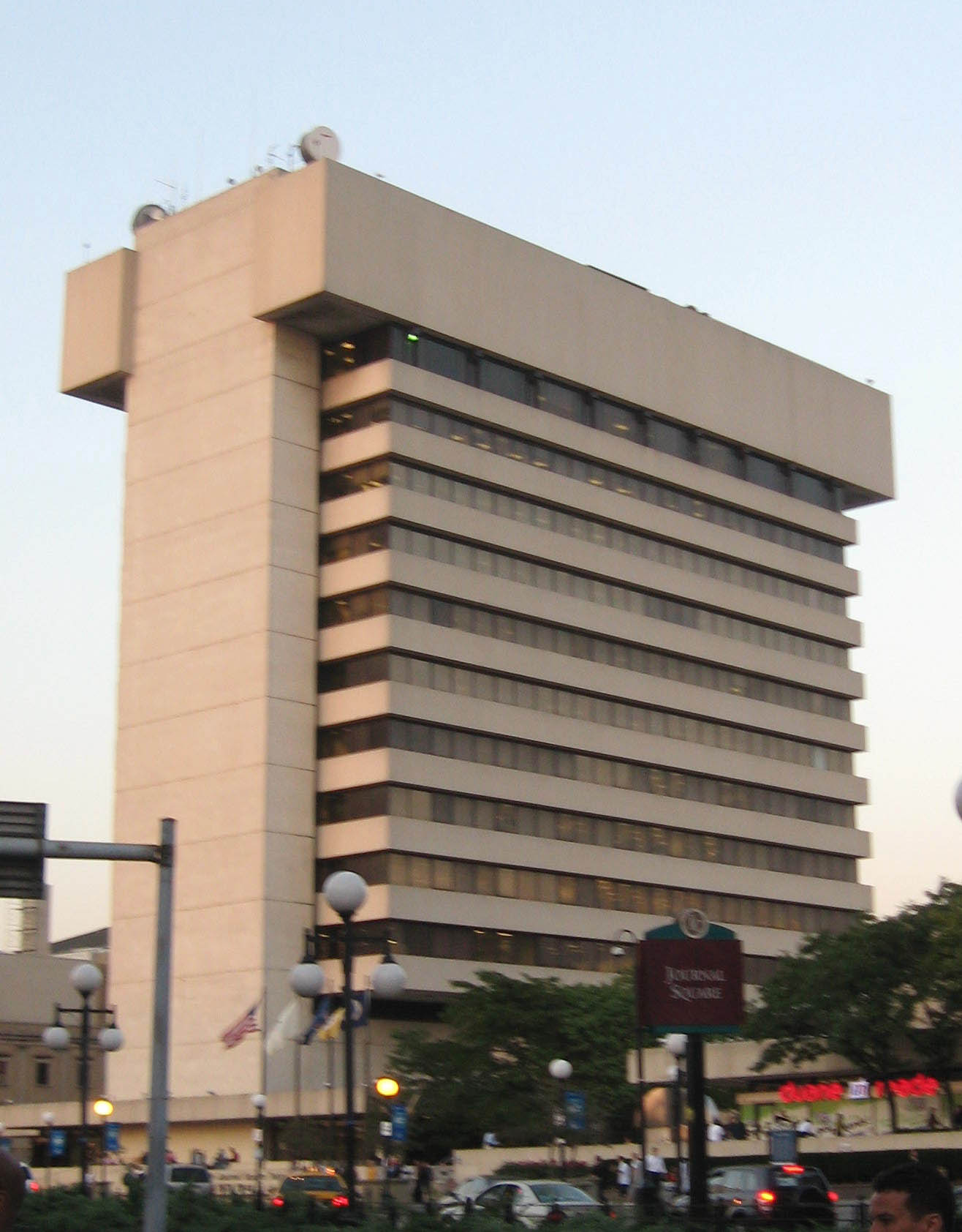 Looking northeast at Port Authority Transportation Building in Jersey City, New Jersey's Journal Square near dusk of a sunny day